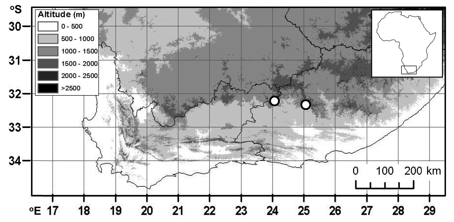 Distribution of Psoralea margaretiflora C.H. Stirton, & V.R. Clark.